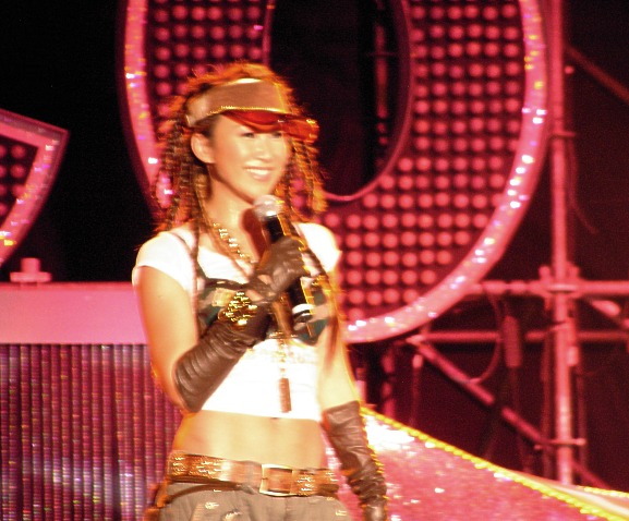 Coco Lee performs her new single, "Hip Hop Tonight," at a street concert in Taipei, Taiwan